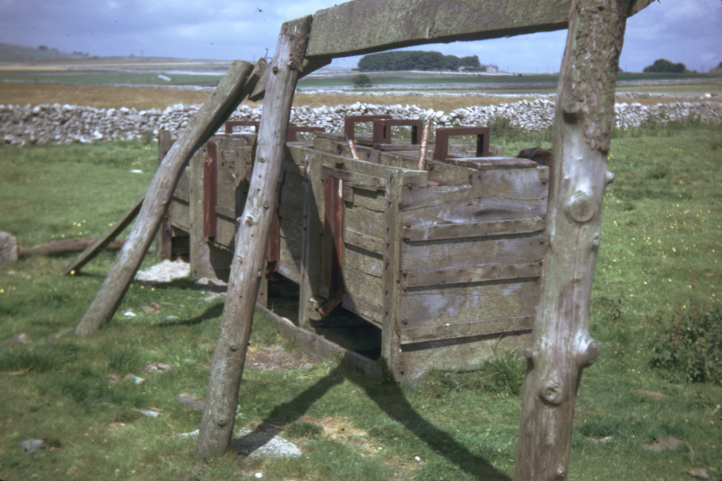 Hotching tubs built about 1950 for washing lead ore at the Magpie Mine, near Sheldon, Derbyshire